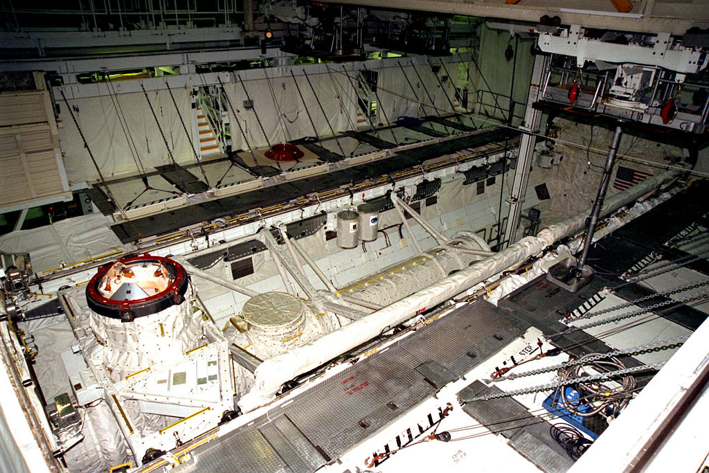 Processing activities for STS-91 continue in KSC's Orbiter Processing Facility Bay 2. The payload bay of Space Shuttle Discovery is relatively empty as installation of the Get Away Special (GAS) canisters begins. Two GAS canisters can be seen in the center of the photograph. On the left is G-648, a Canadian Space Agency-sponsored study on manufactured organic thin film by the physical vapor transport method, and on the right is a can with hundreds of commemorative flags to be flown on the mission. STS-91 is scheduled to launch aboard the Space Shuttle Discovery for the ninth and final docking with the Russian Space Station Mir from KSC's Launch Pad 39A on June 2 with a launch window opening around 6:04 p.m. EDT.